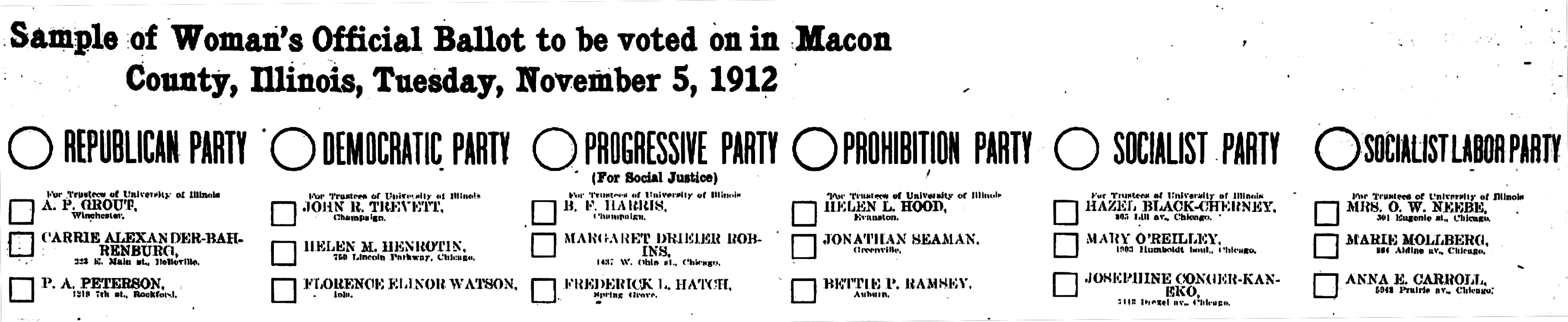 Newspaper illustration of a 1912 Illinois ballot for women, who were allowed to vote only for trustees of the University of Illinois and not for other offices , with a headline from the Decatur Herald, November 2, 1912. Each candidate is listed by name under a political party slate, which could be chosen if desired.